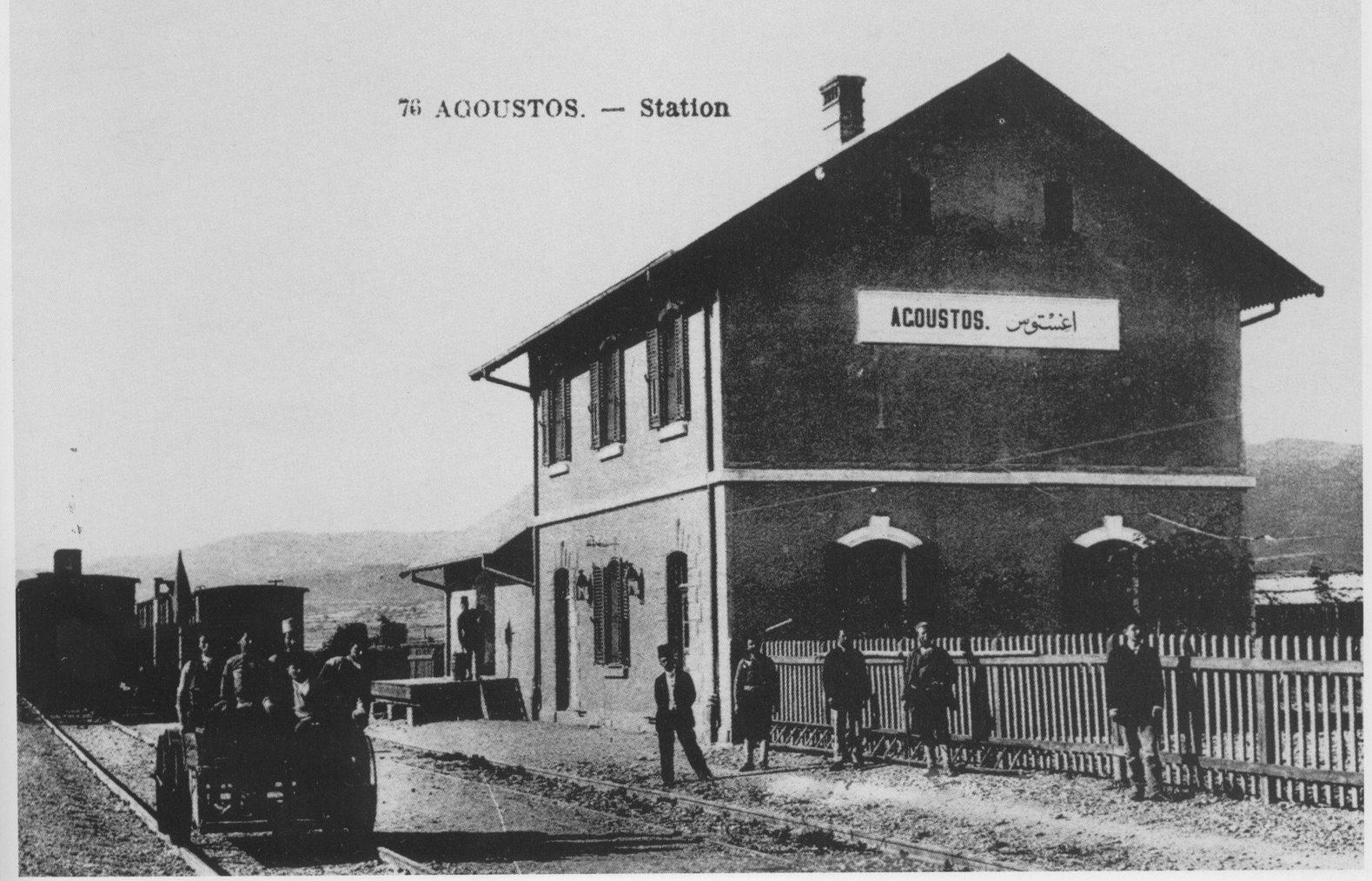 1:Naoussa railway station, 1894